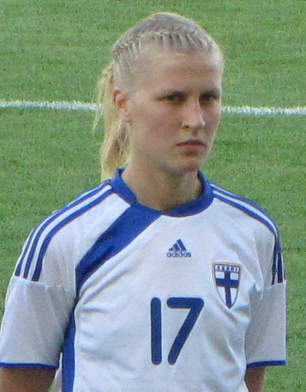 Sanna Talonen during Finland - Northern Ireland friendly match.